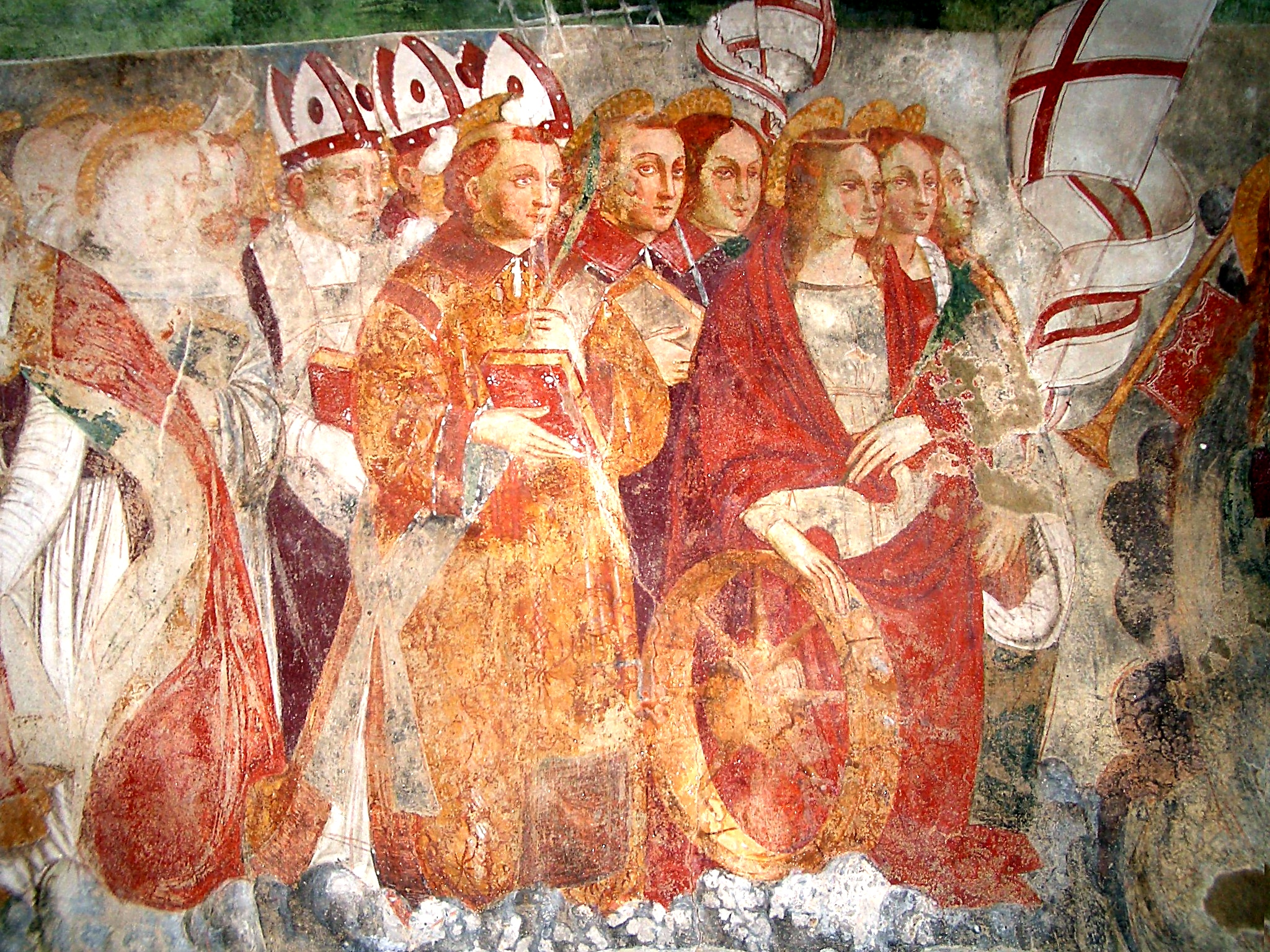 Sperindio Cagnola, Saints in glory (detail of the Last Judgement), 1514 -24, Paruzzaro, San Marcello Church